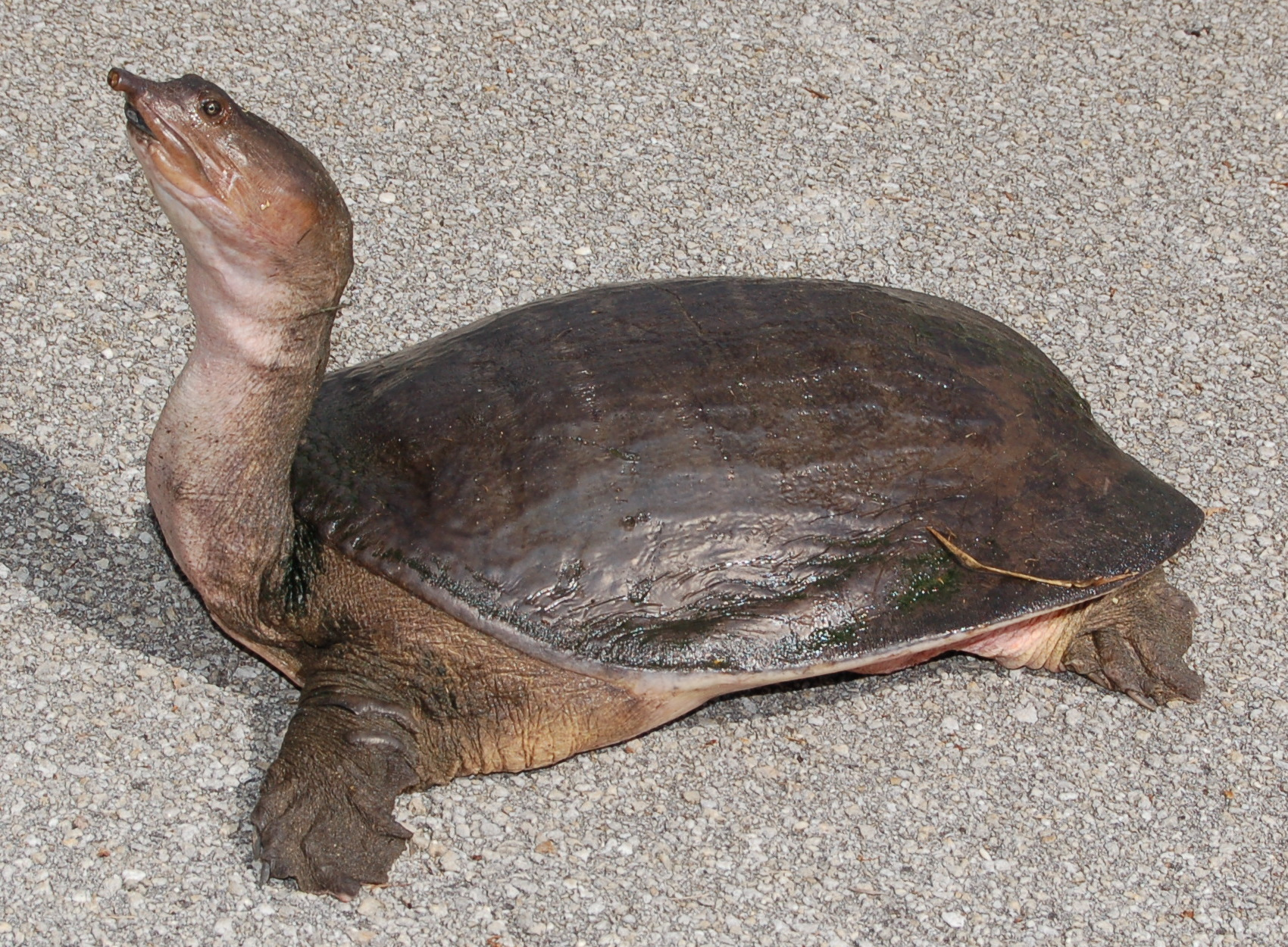 Florida Soft-shell Turtle on land, as seen in Everglades National Park, Homestead, Florida, USA.